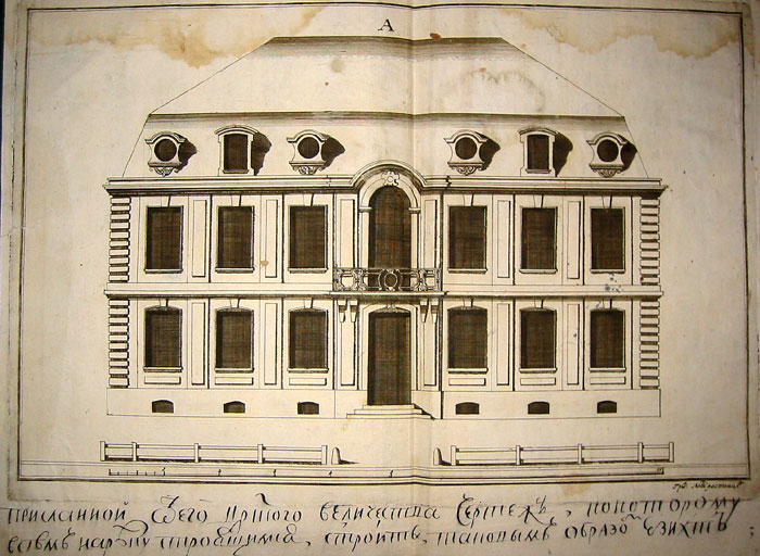 The standard design of Saint Petersburg buildings for city embankments